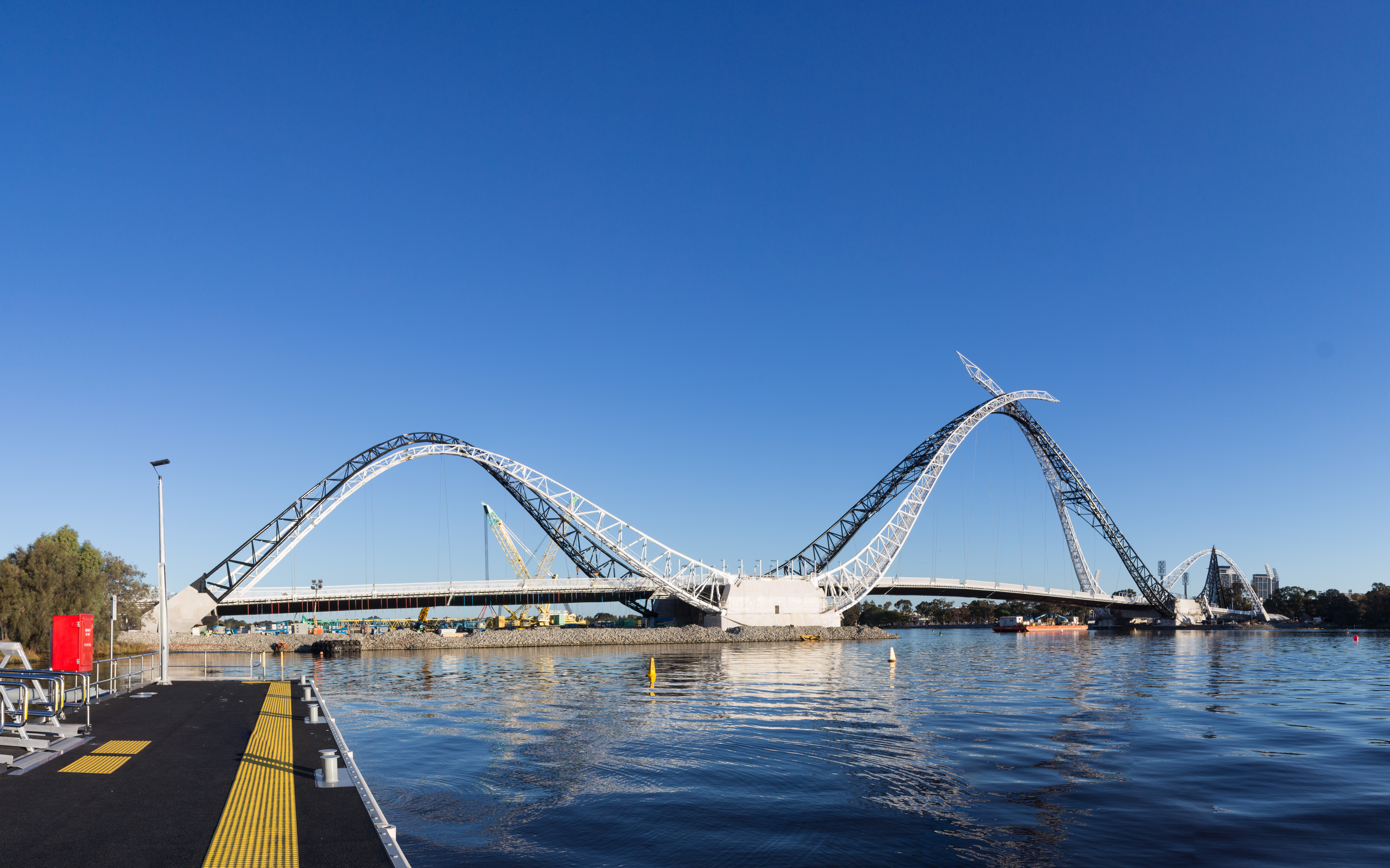 Matagarup Bridge under construction in July 2018. Photographed from Burswood Jetty.